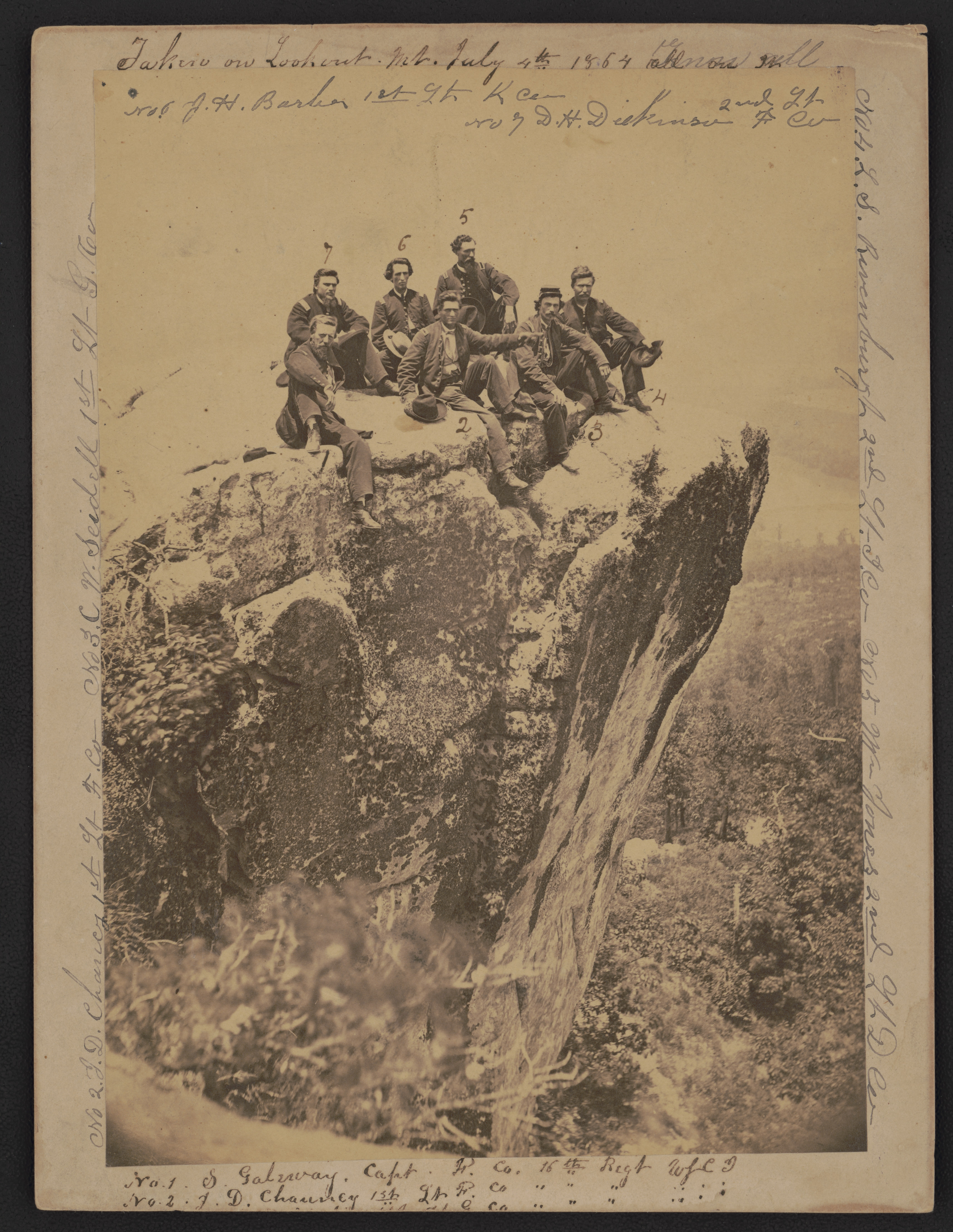 Title: Officers of the 16th U.S. Colored Troops Infantry Regiment atop Lookout Mountain, Tennessee Abstract/medium: 1 photograph : albumen print on card mount ; sheet 20 x 14, mount 22 x 17 cm.